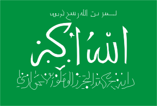 flag of ANML